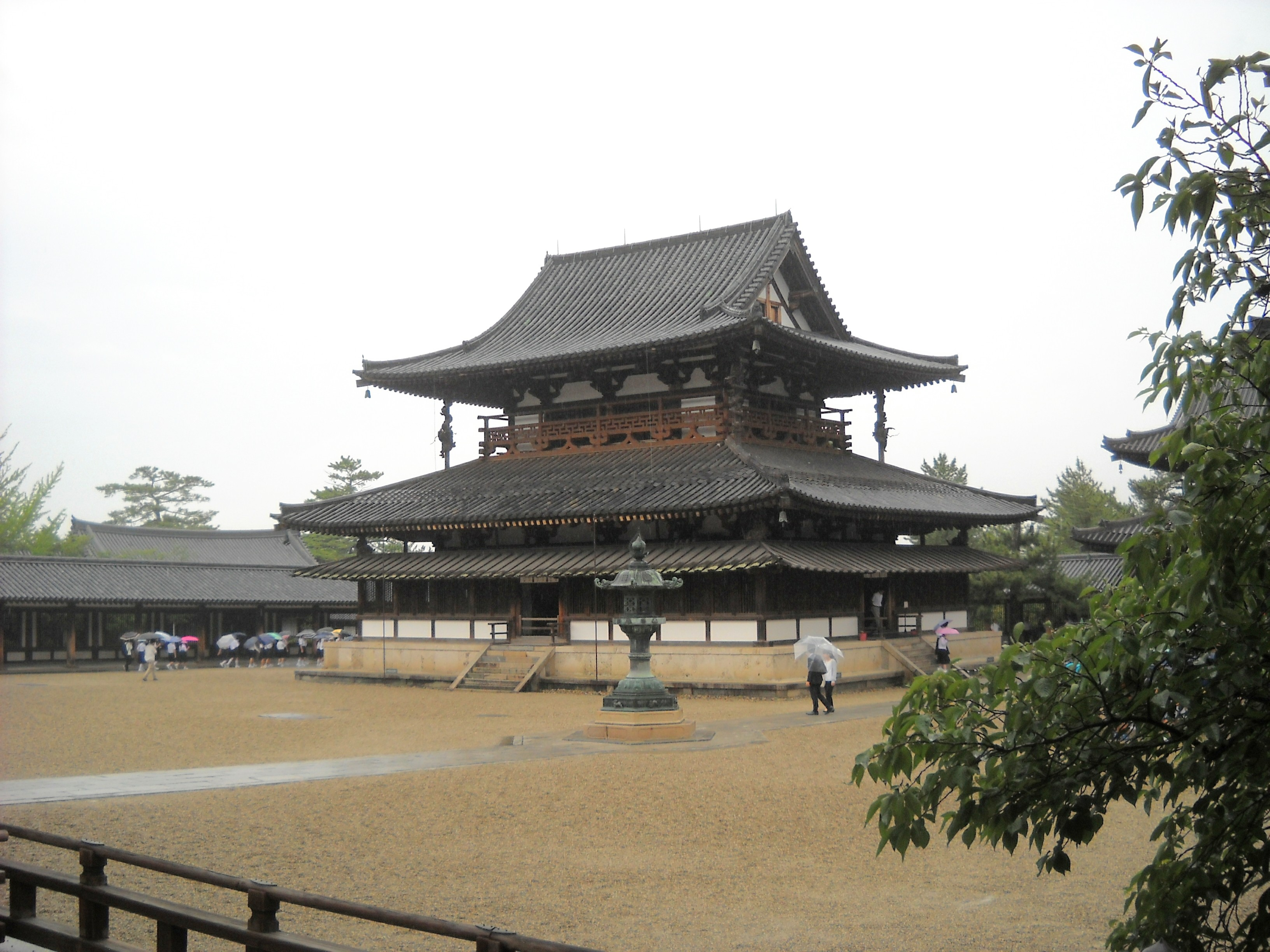 Hōryū-ji Kondō, June 7th, 2019